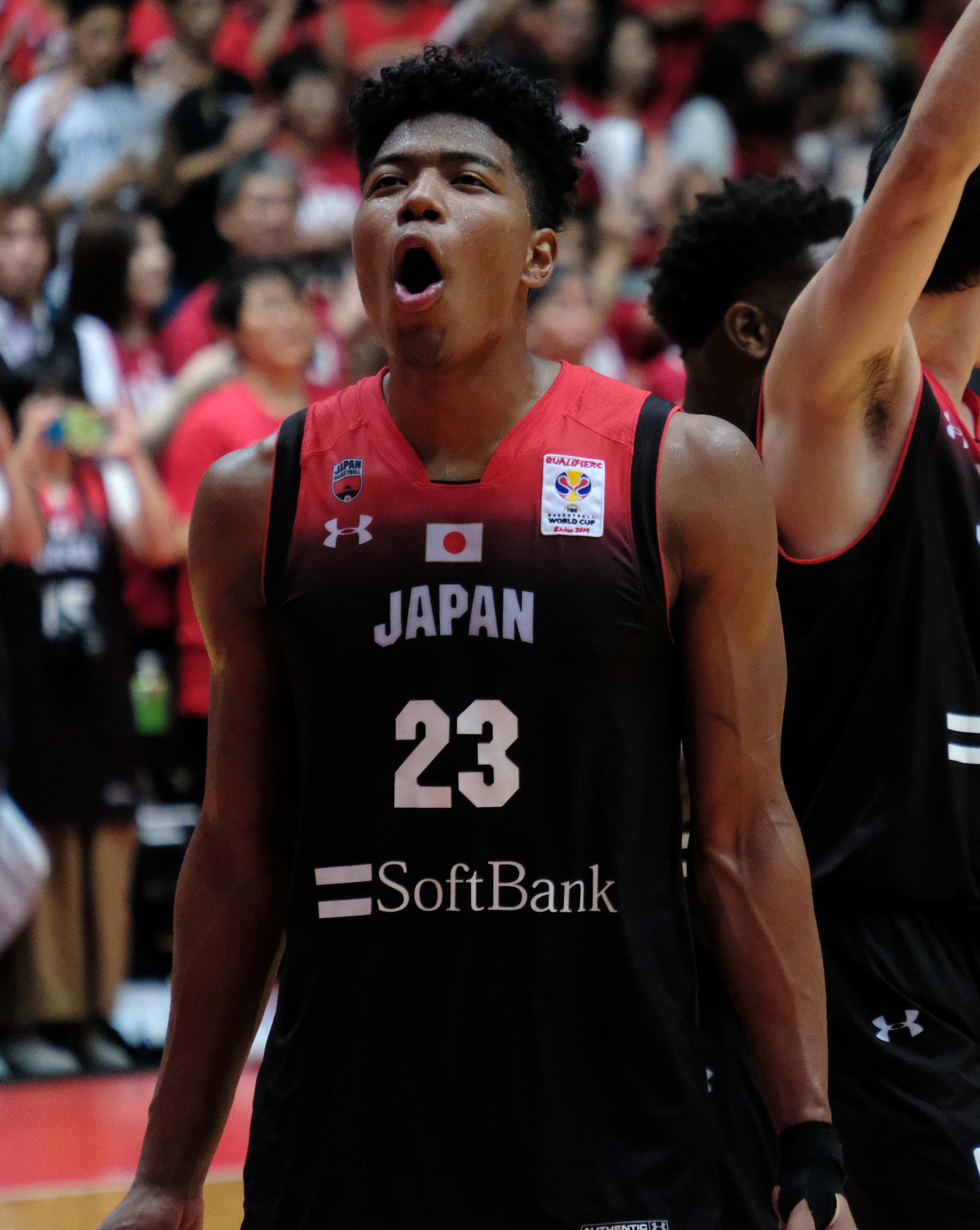 2019 FIBA Basketball World Cup qualification, Japan vs Iran